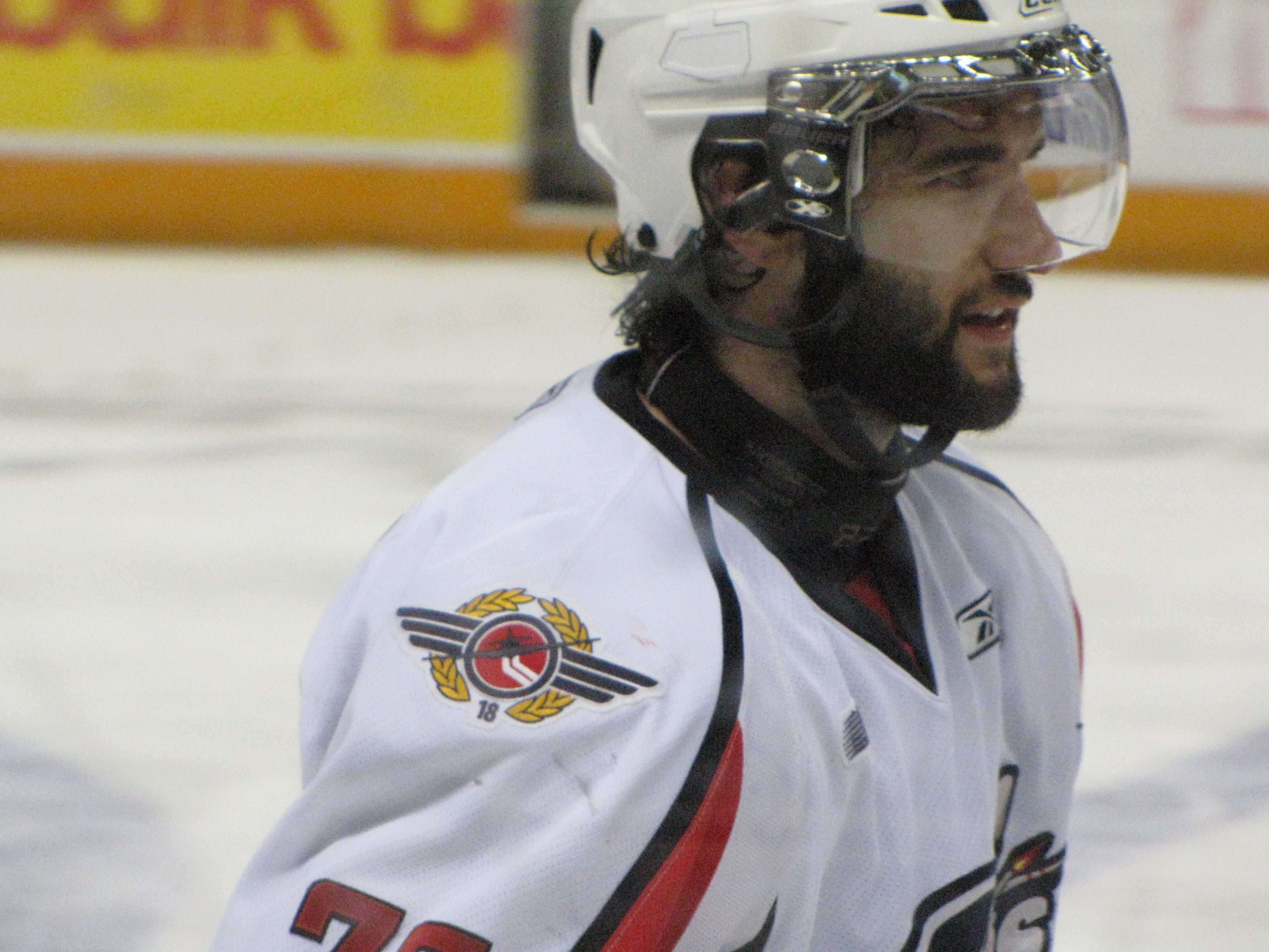 Scott Timmins of the Windsor Spitfires